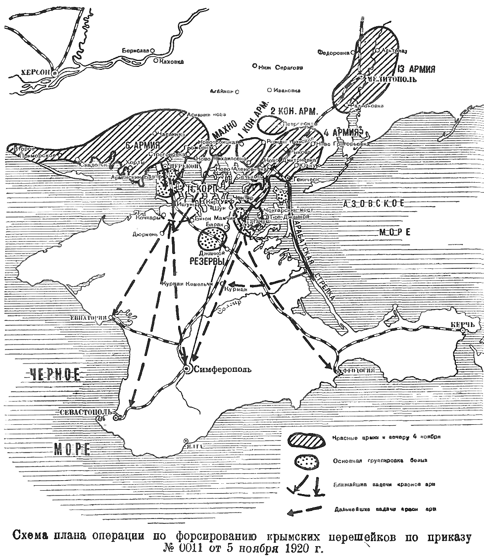 detailed sheme of perekop offensive of the red army, november 1920